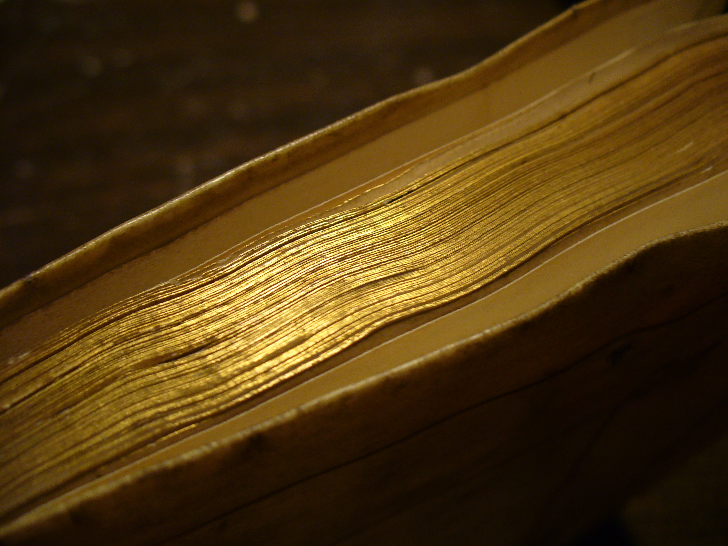 This is a photograph of the gilding of the pages of Quodlibets by Robert Hayman.